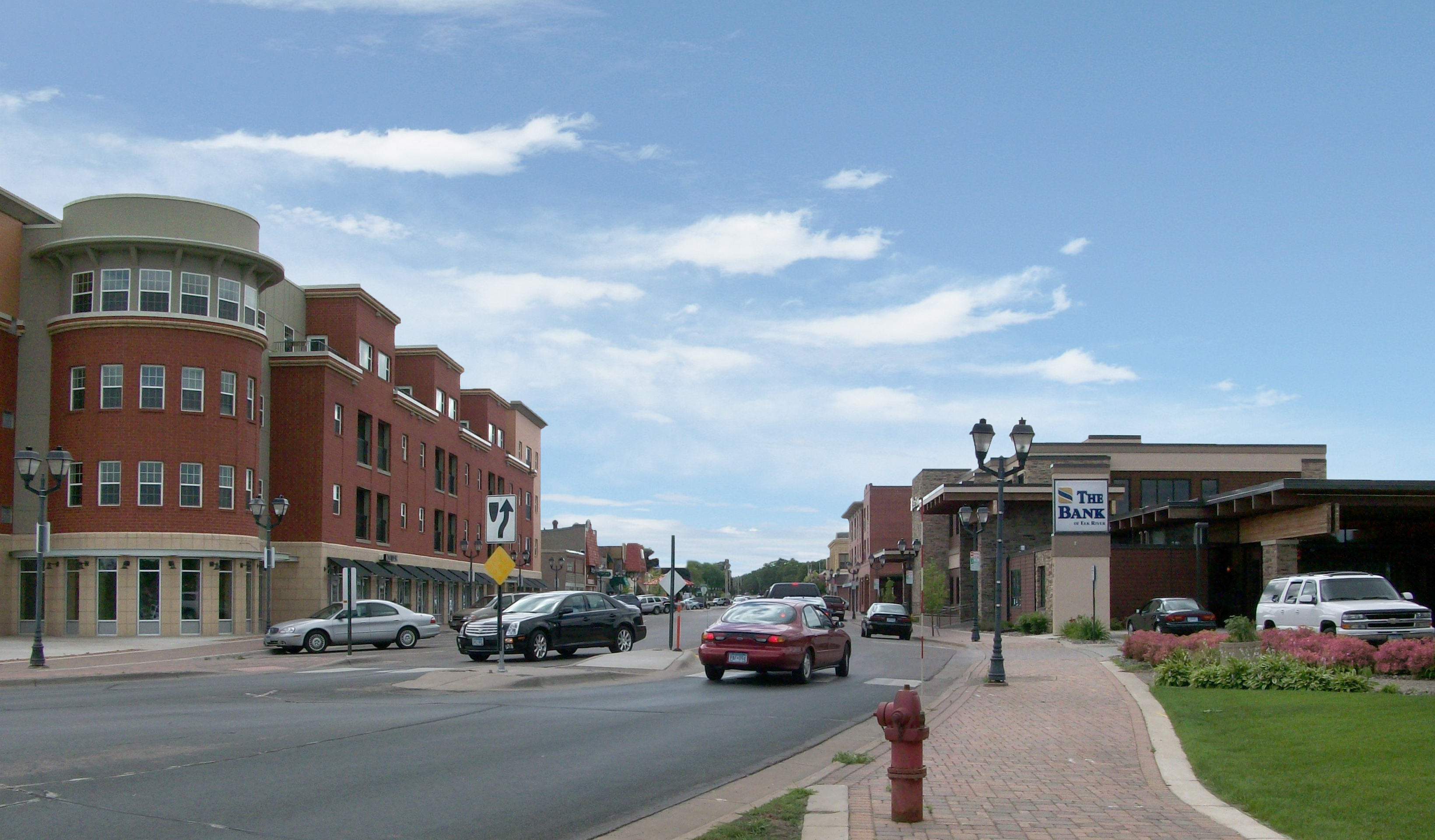 Main St. in downtown Elk River, July 2009